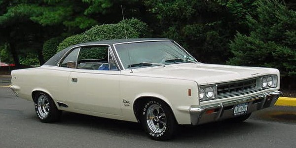 1968 Rebel SST two-door hardtop by American Motors (AMC), finished in "Frost White" (paint code - P72A) with the optional black vinyl roof cover. NOTE - this car has vintage aftermarket "sport" wheels.